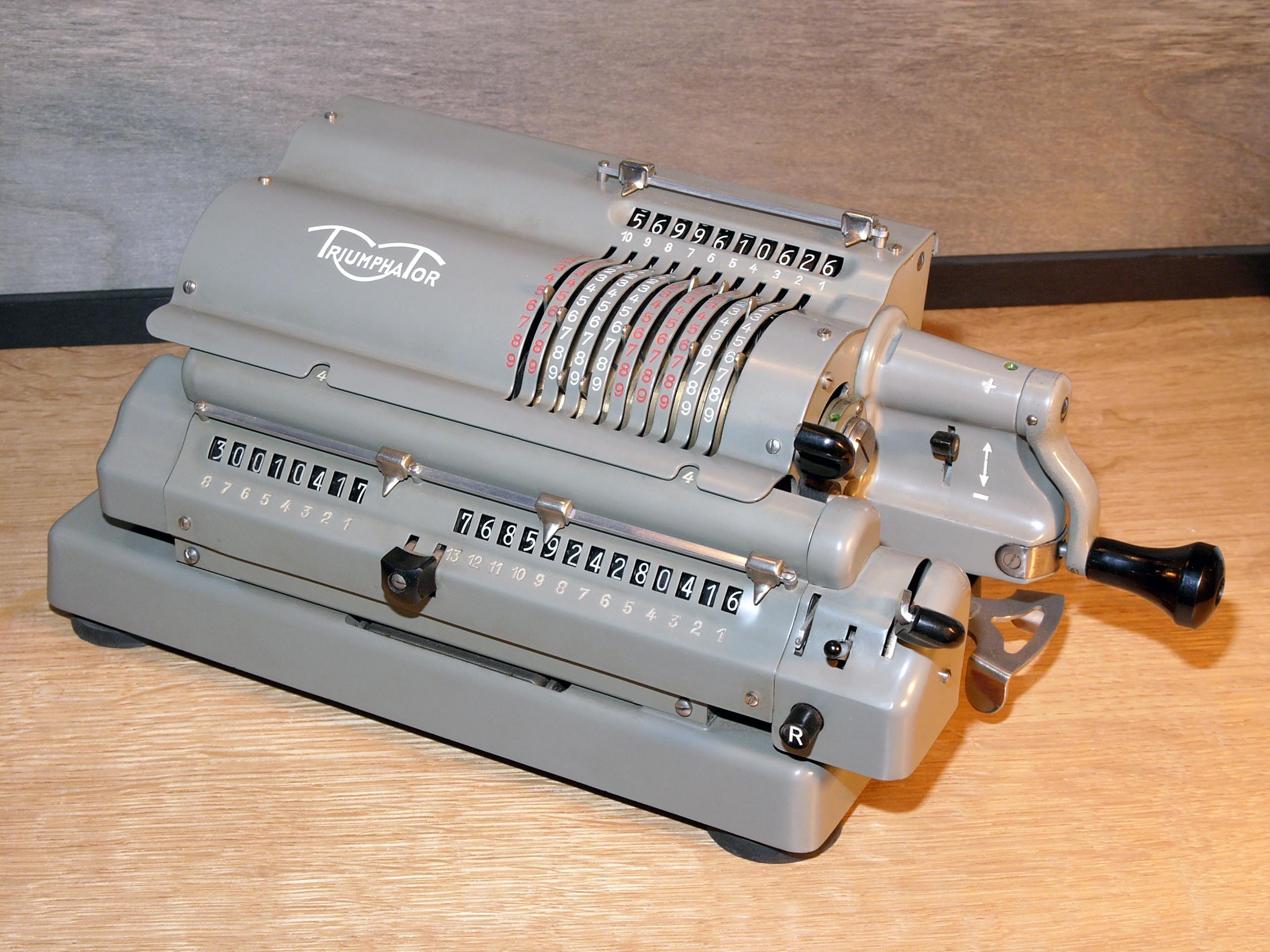 Calculator Triumphator CRN1 build 1958 in Germany (DDR)